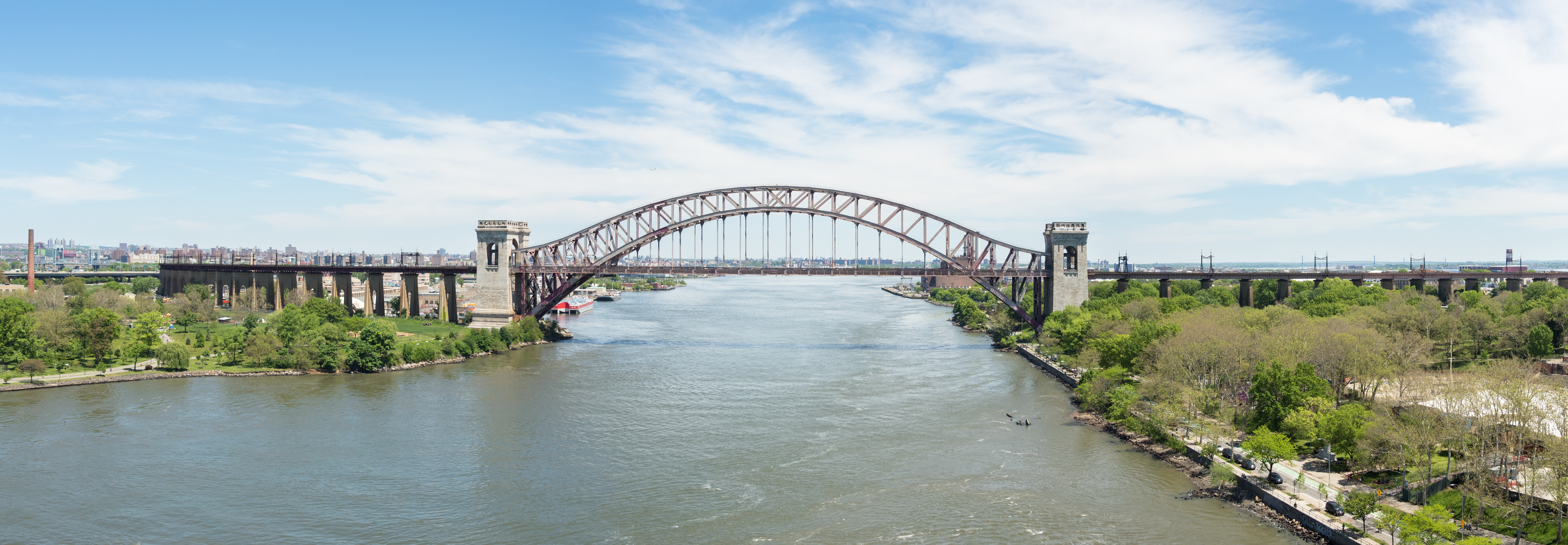 Hell Gate Bridge and the East River, viewed from the RFK bridge